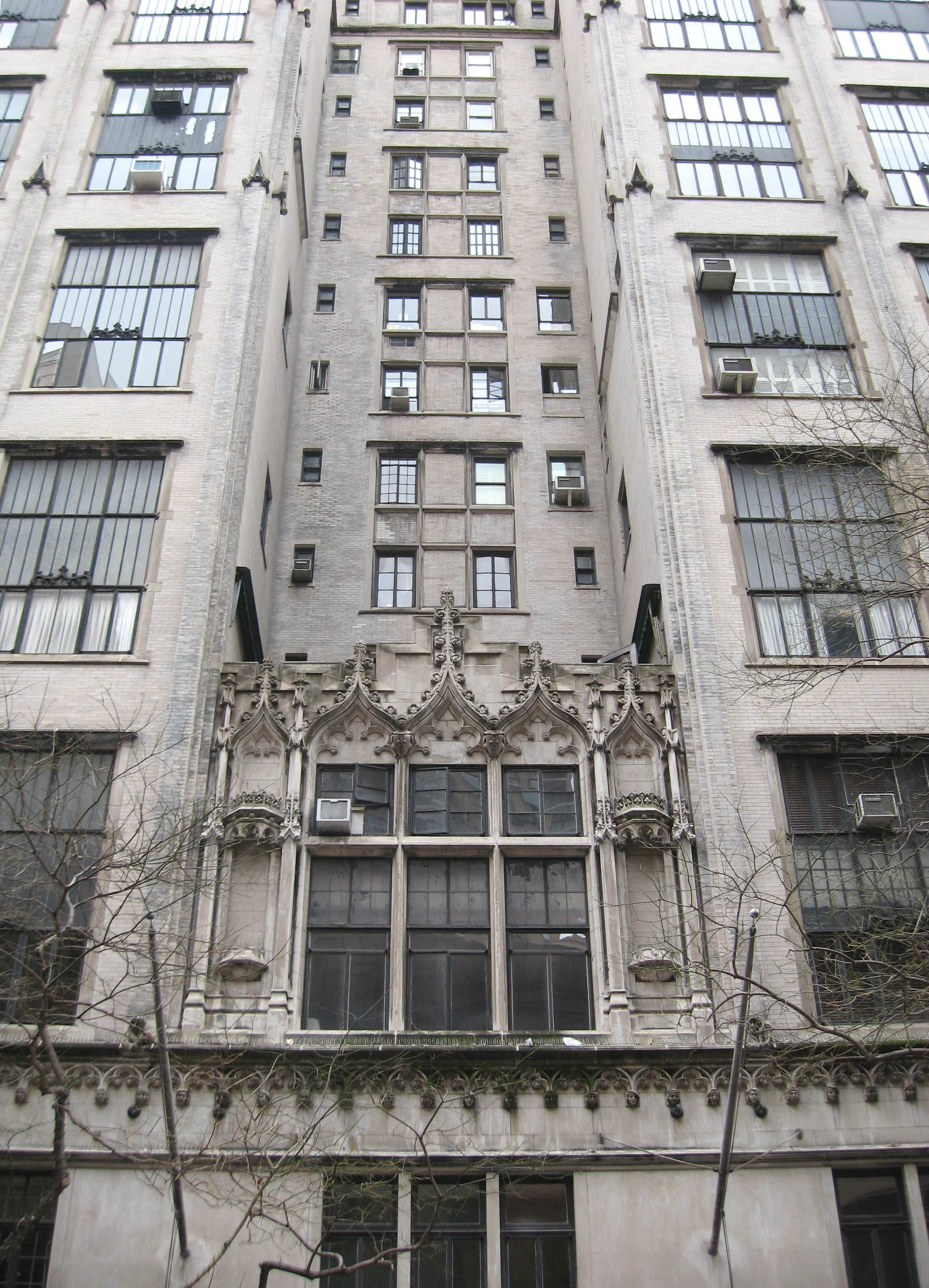 Looking up the facade of Hotel Des Artistes, above Café des Artistes on a cloudy afternoon.